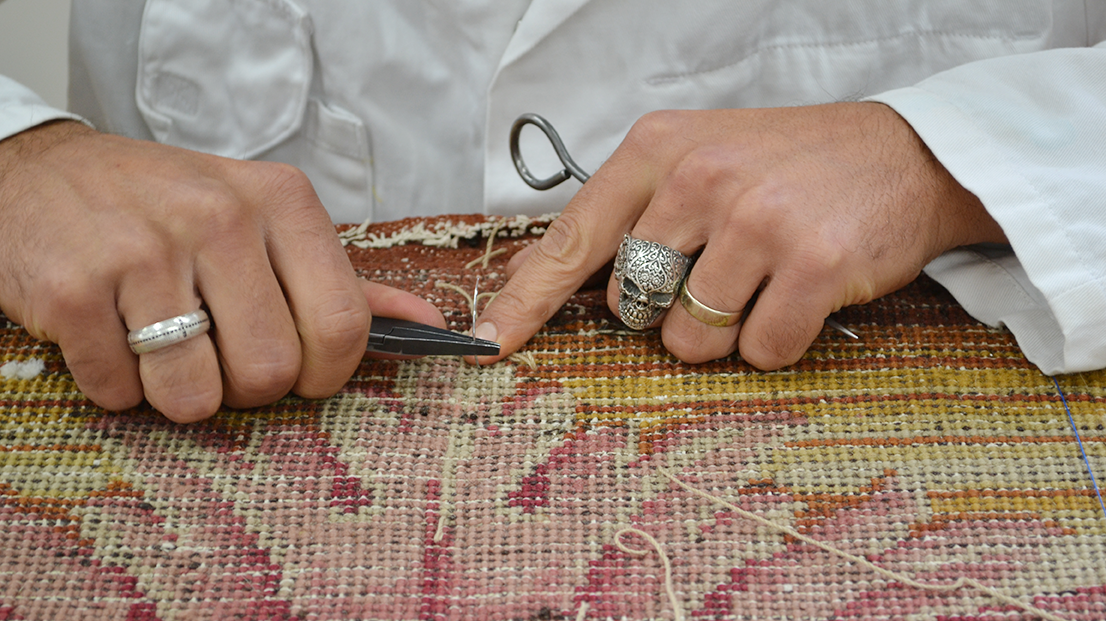 This media was taken during the workshop of the 21 September 2018 at the Mobilier national, supported by Wikimédia France. English | français | +/−